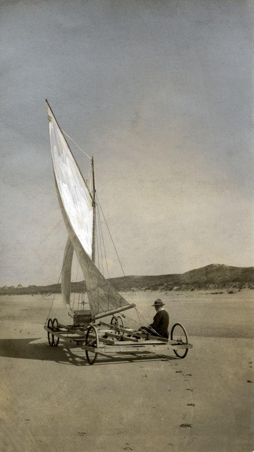 Land sailing: sand yacht of Emanuel Urlus on the beach between Noordwijk and Katwijk (the Netherlands), 1917. You can help us gain more knowledge on the content of our collection by simply adding a comment with information. If you do not wish to log in, you can write an e-mail to